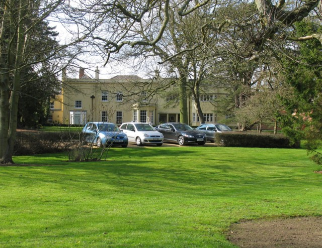 Queniborough Hall, Leicestershire